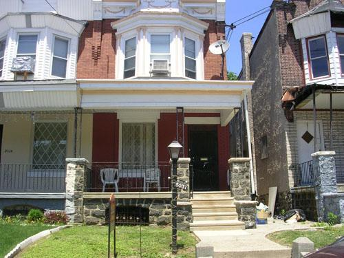 Brick twin house in West Philly. Pic I took while house shopping. This is probably 5037 Catharine.